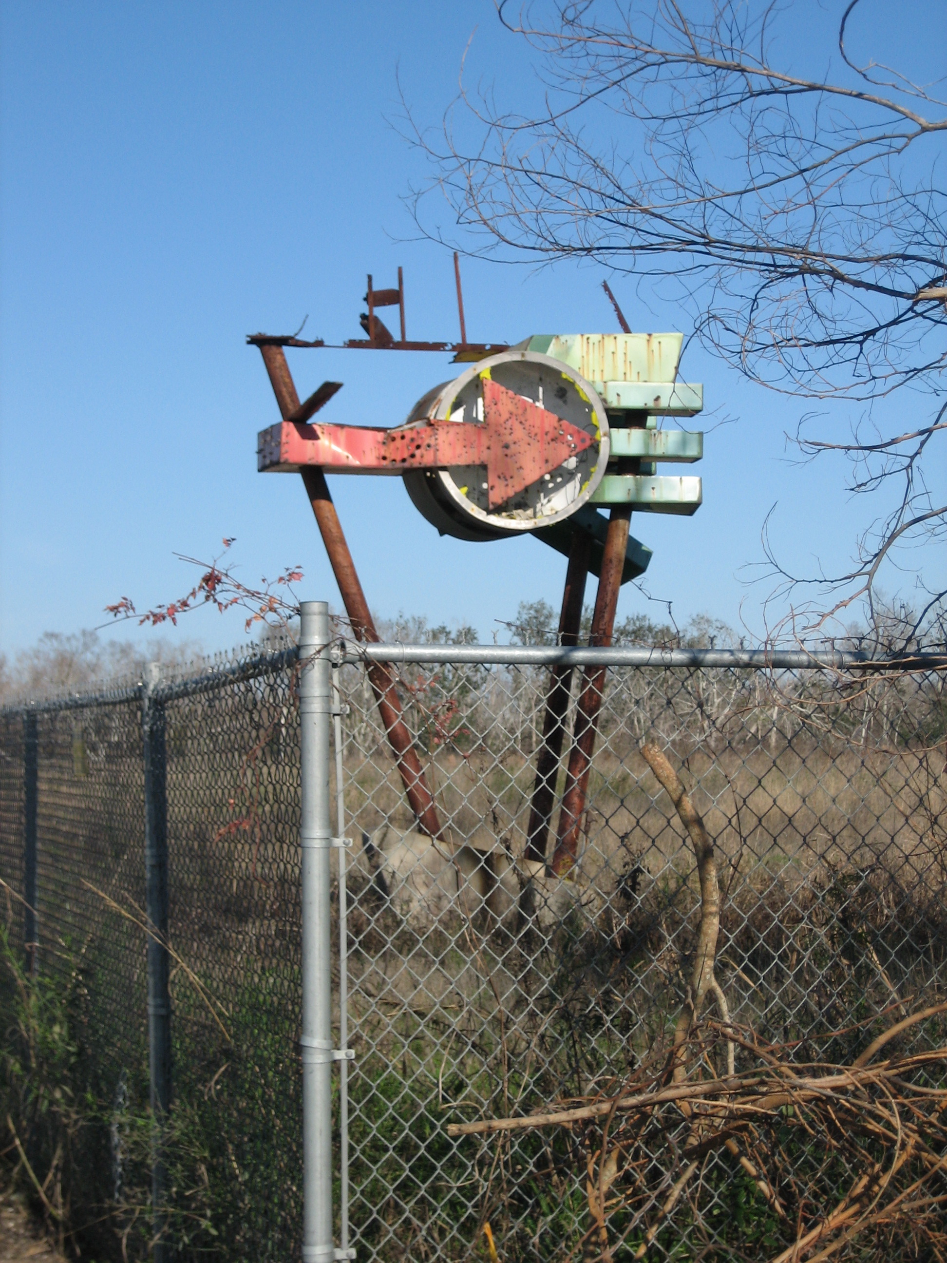 New Orleans: Remains of old sign on Hayne Boulevard is one of the few easily visible reminders of the long closed Lincoln Beach Amusement Park. Photo by Infrogmation of New Orleans, January 2006.